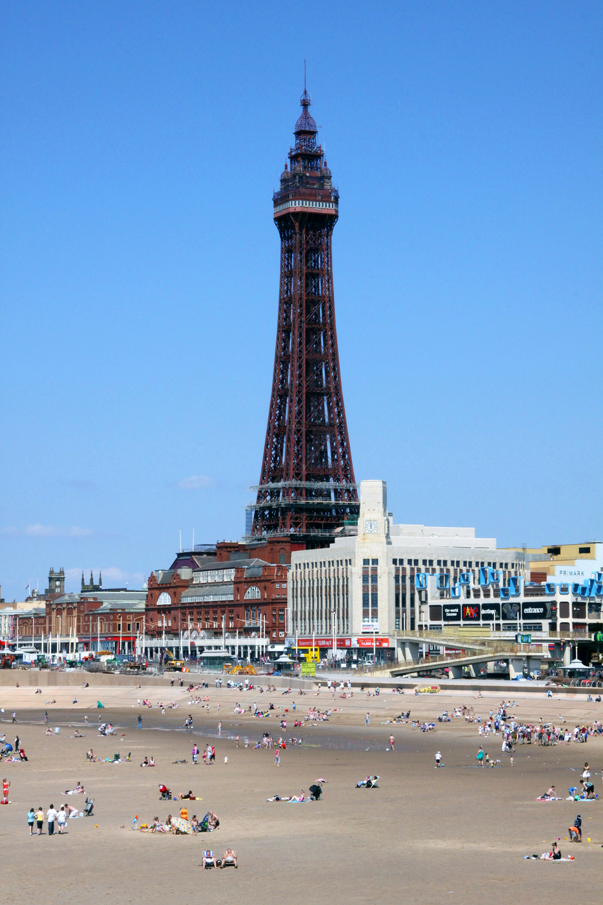 Blackpool Tower, general view